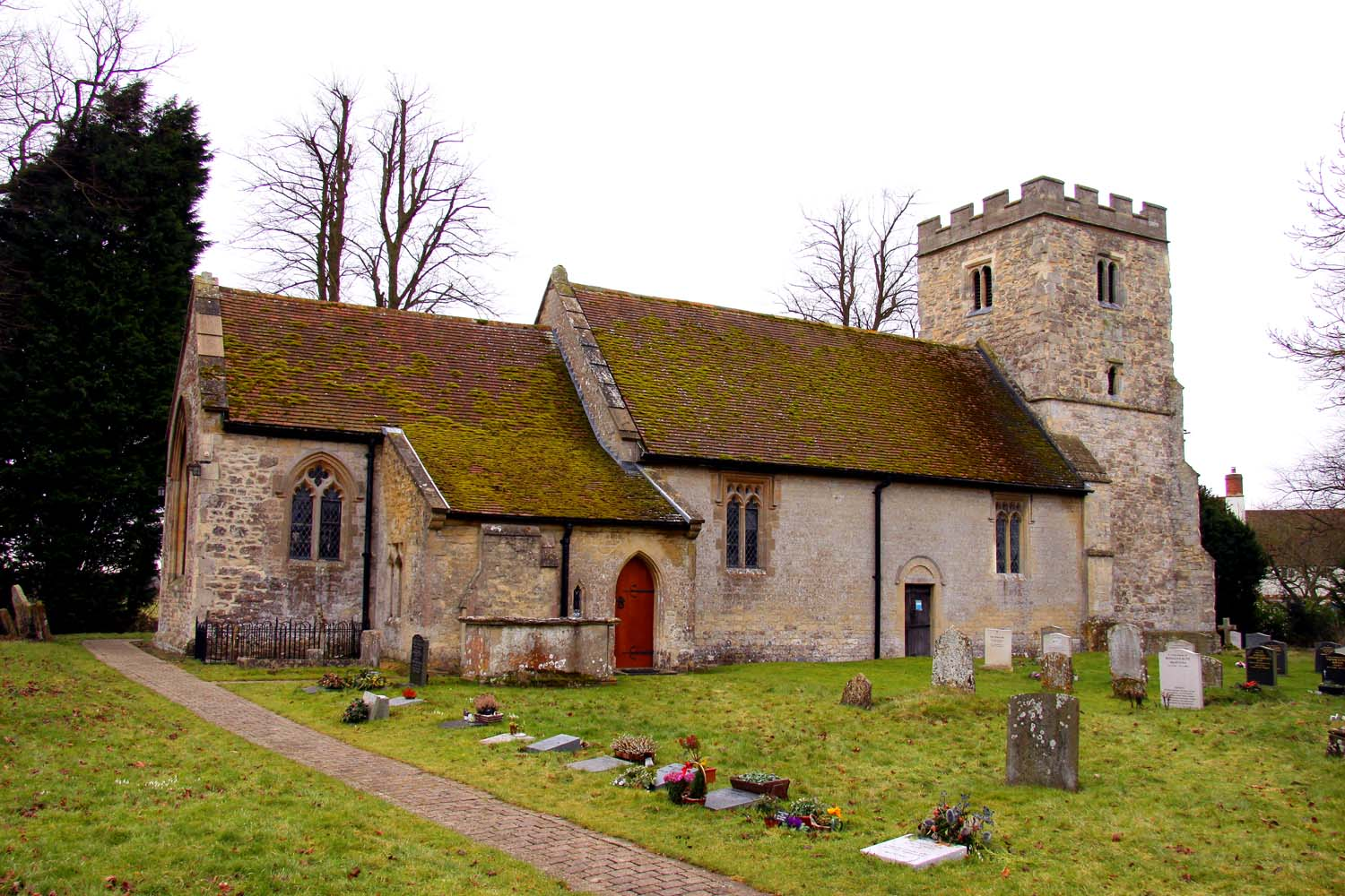 SS Peter and Paul parish church, Worminghall, Buckinghamshire, seen from the northeast